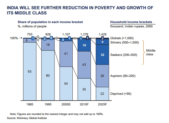 The rise of India's aspiring middle class